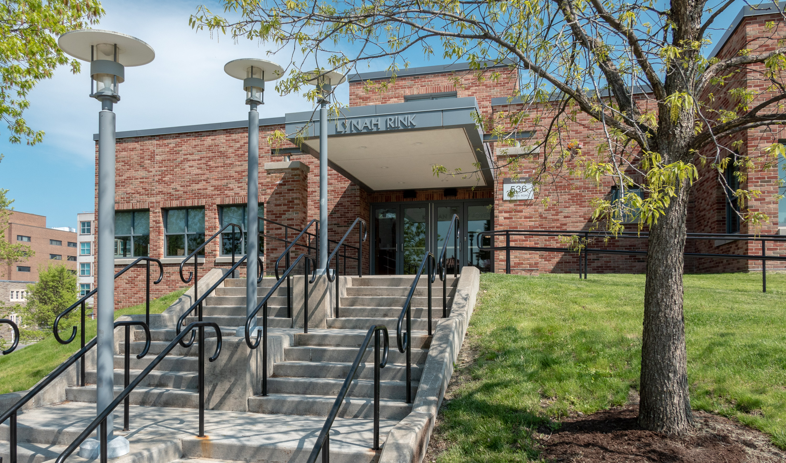 James Lynah Rink, Campus Road, Cornell University